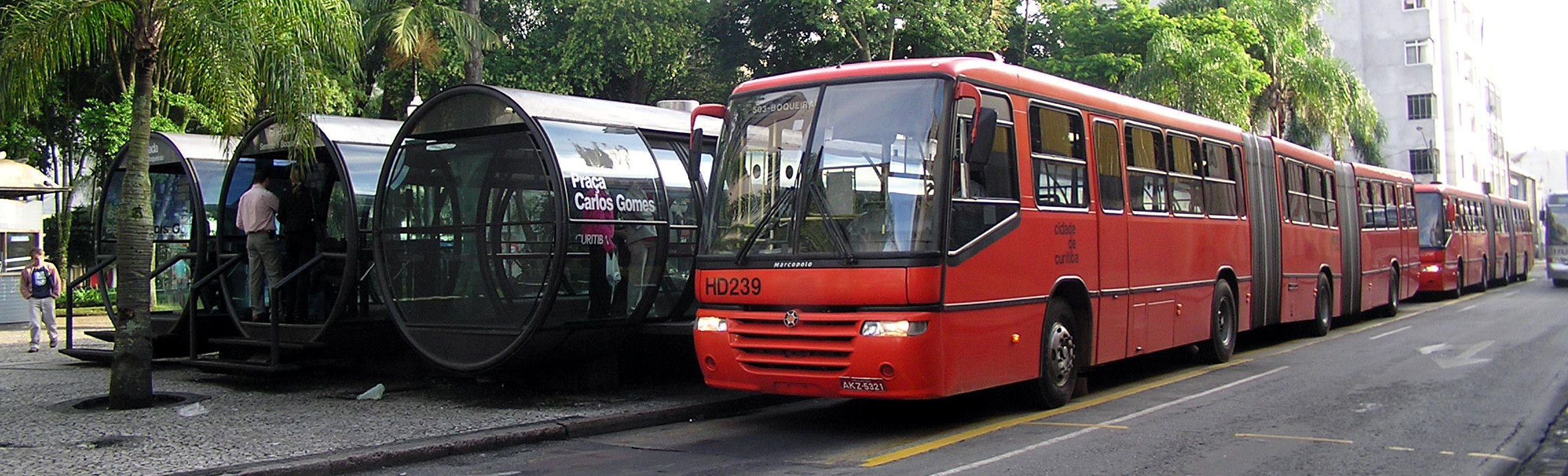 Bus stops in Curitiba, Paraná, Brasil. Marcopolo Torino Biarticulado bus (#HD239) with Volvo B10M Biarticulado chassis.